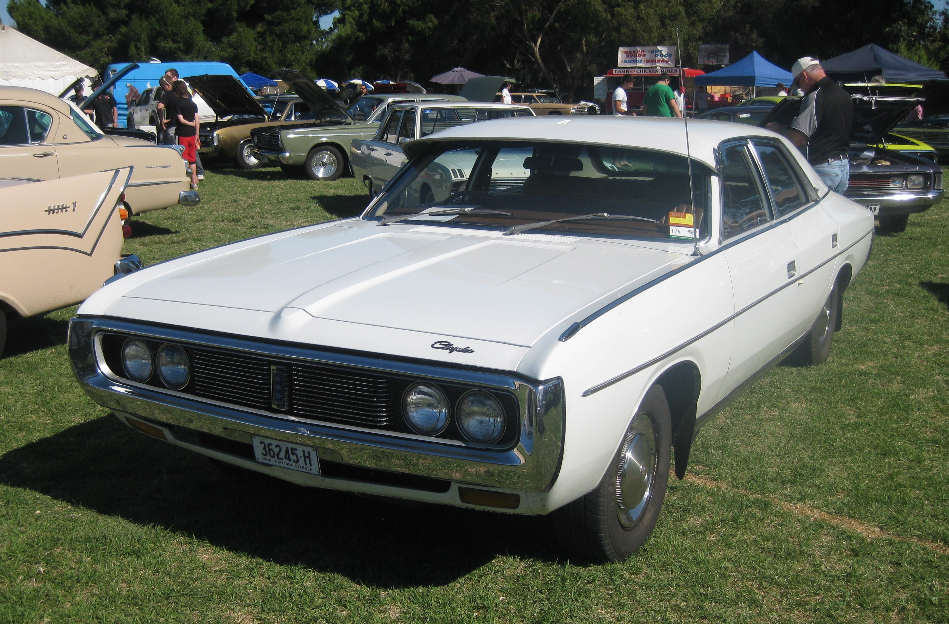 Chrysler CH Sedan, as produced by Chrysler Australia from 1971 to 1973. This model is also known as the "Chrysler by Chrysler".